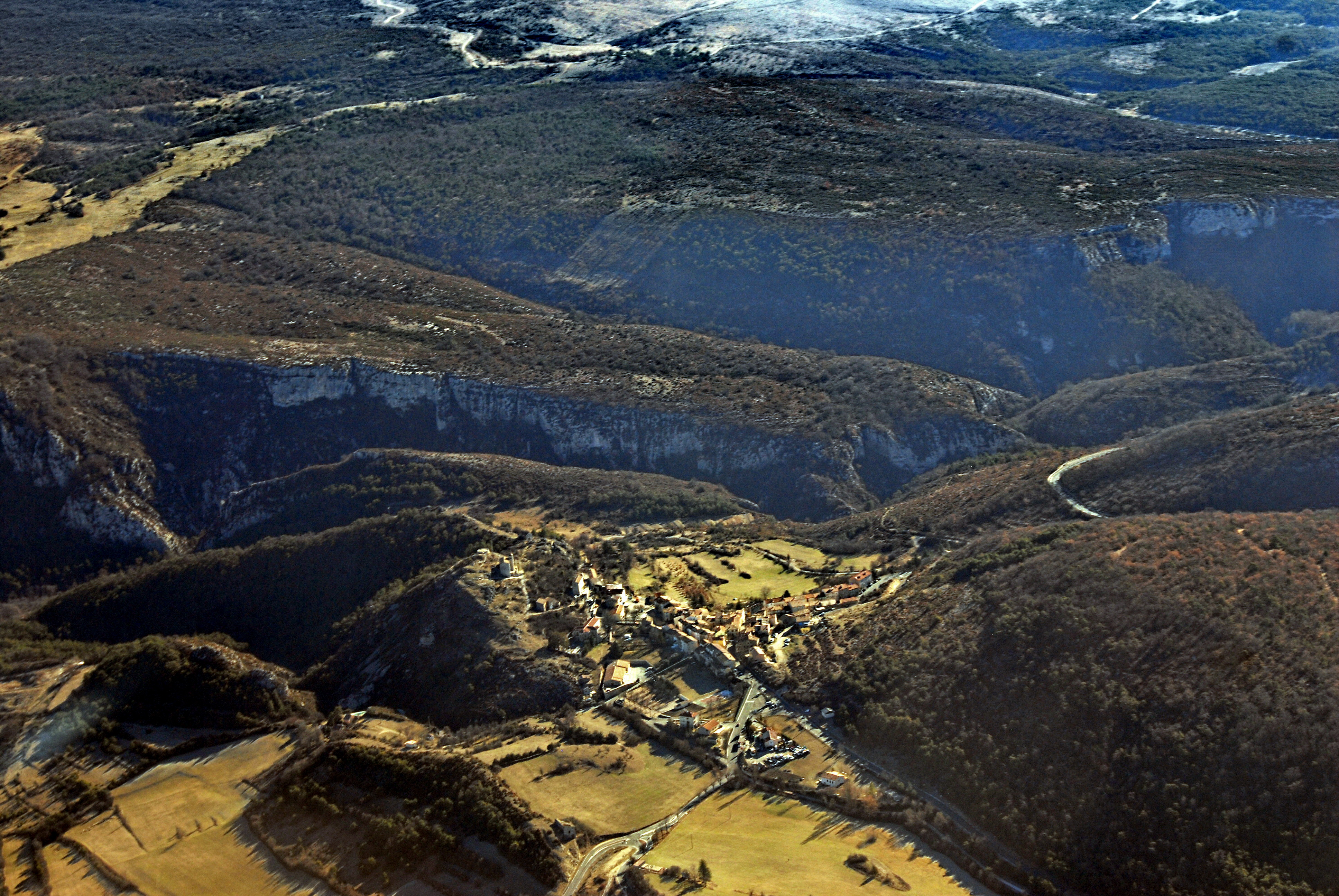 Comps sur Artuby (Var): aerial view.